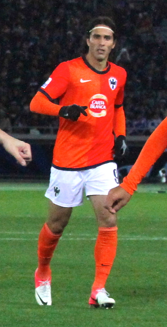 Oscar of Chelsea at 2012 FIFA Club World Cup